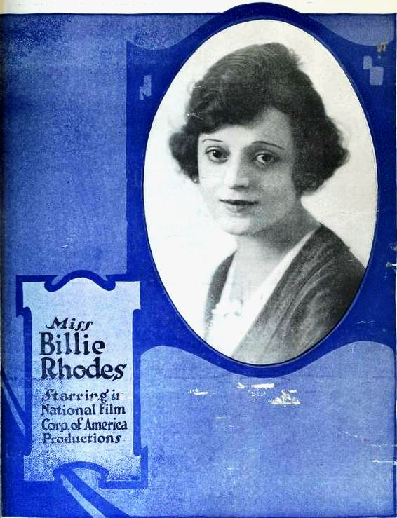 Actress Billie Rhodes, on the cover of the April 6, 1919 Film Daily.